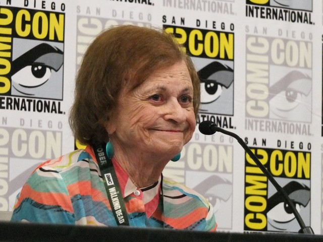 Joye Murchison Kelly (born Joye Hummel) at a San Diego Comic-Con panel in 2018, where she was interviewed by Mark Evanier and Trina Robbins. Photo taken by Bruce Guthrie.